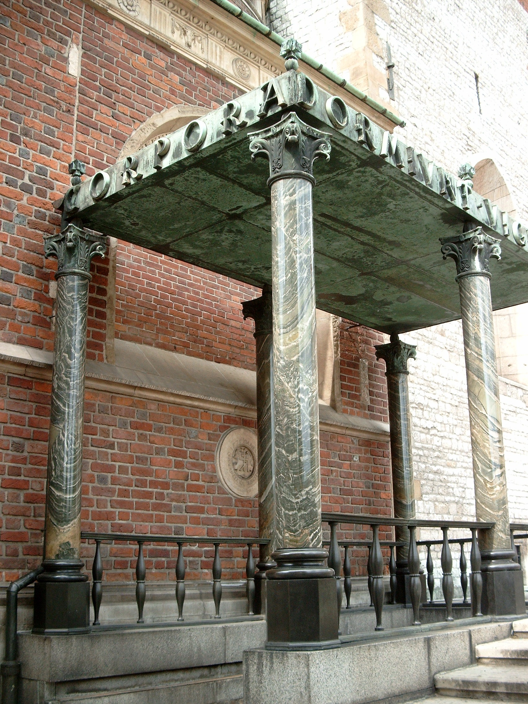 Baldachim pavilion, at Wawel Cathedral, Kraków, Poland.